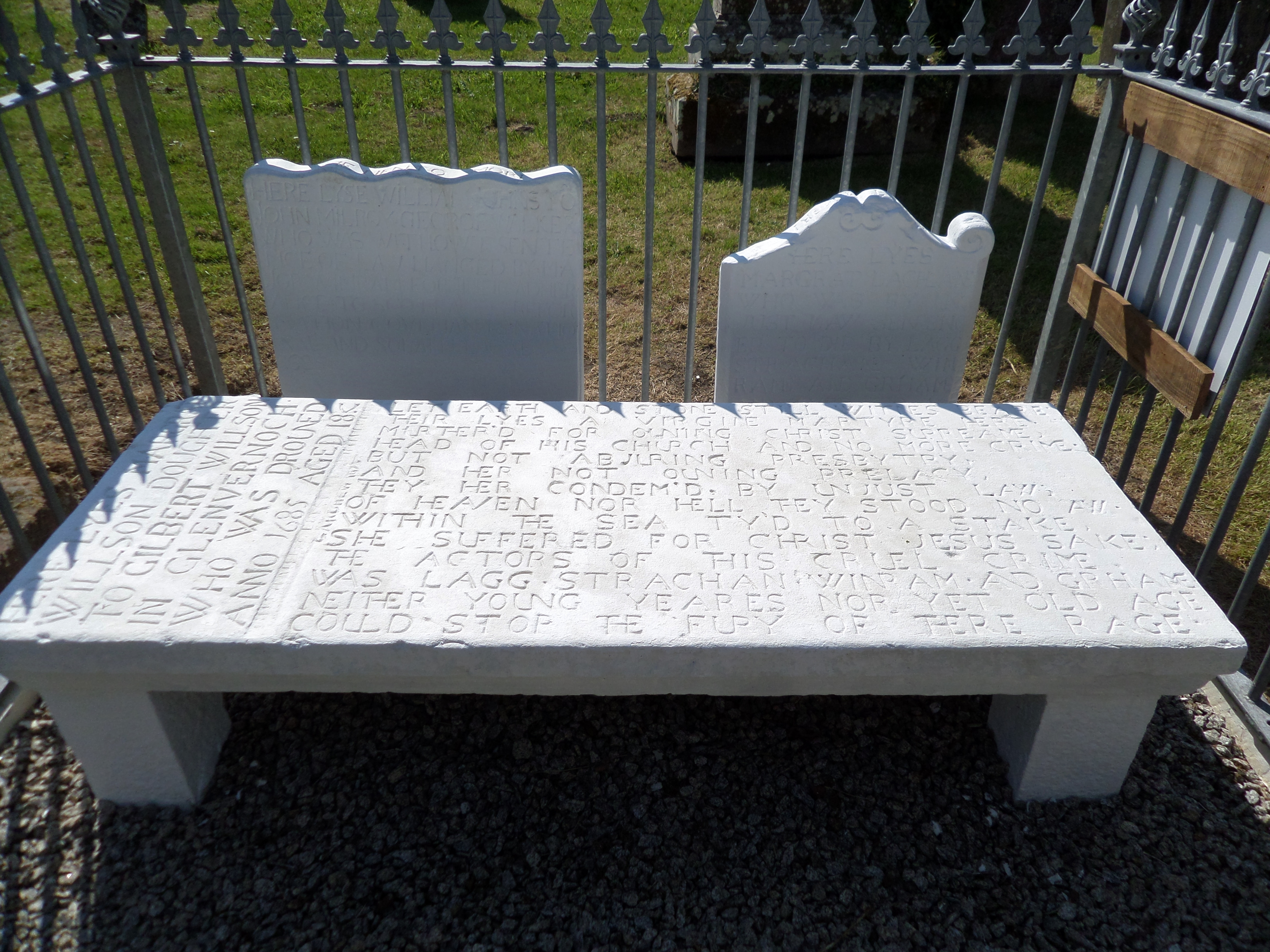 The Martyrs' Grave, Wigtown parish church, Dumfries and Galloway, Scotland. Margaret Wilson, Margaret McLachlan and three others.